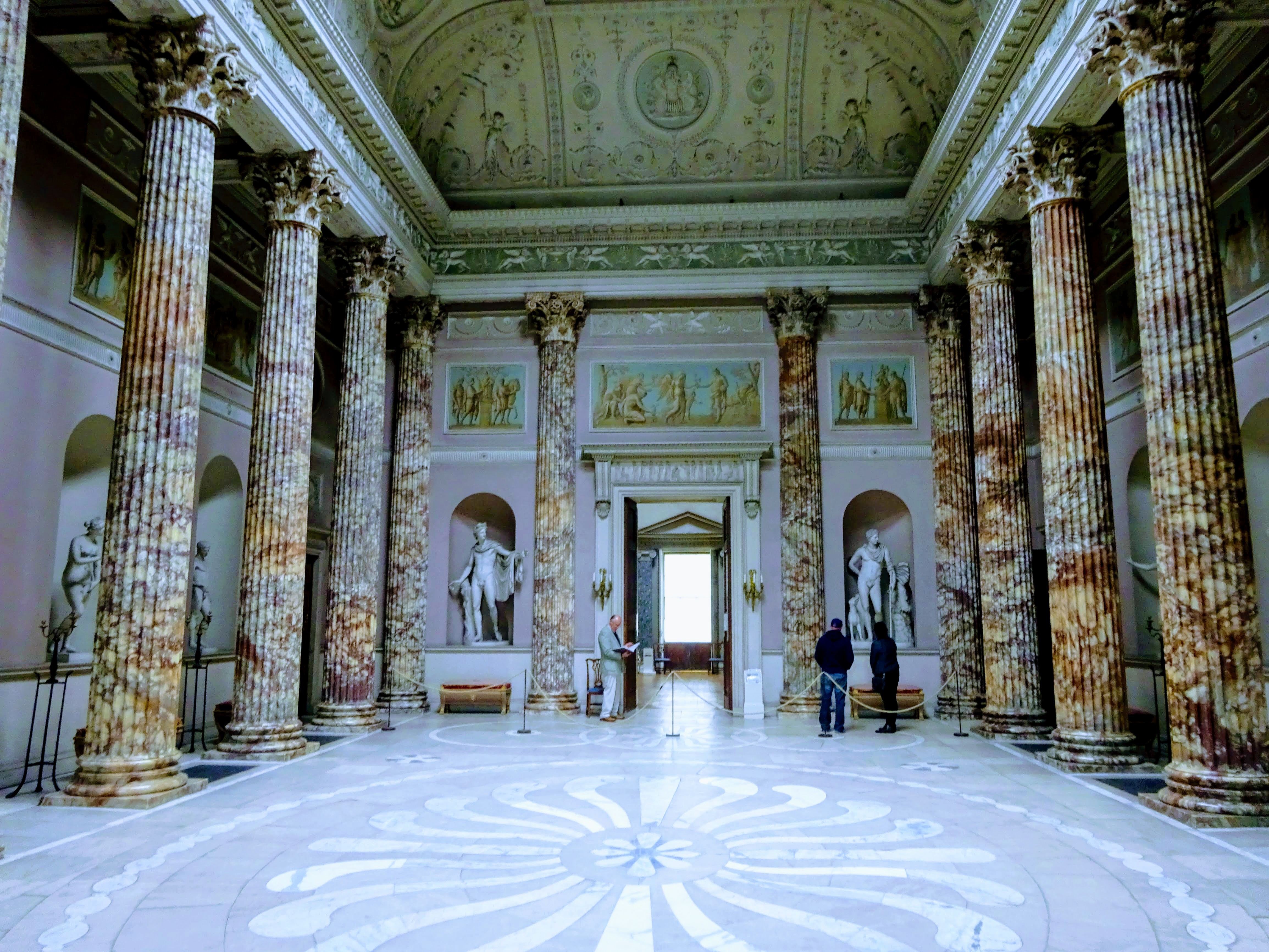 The 18th century classical ballroom.